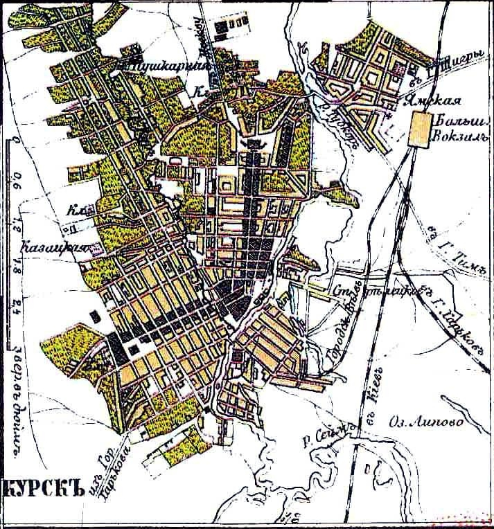 Kursk Map (Late XIX century)